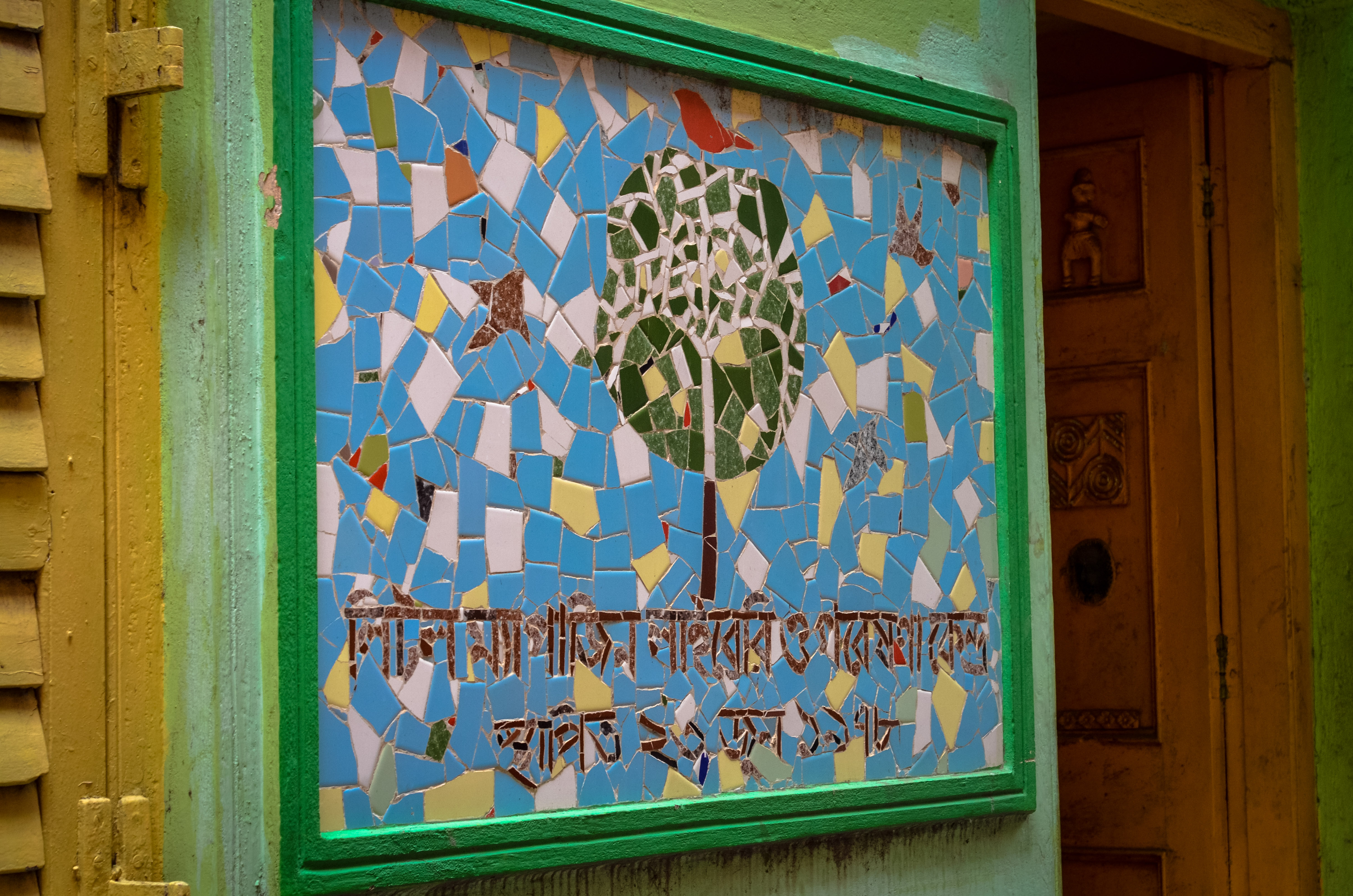 This image is taken in Kolkata Little Magazine Library O Gabeshona Kendro, Kolkata, India. 18/M Tamer Lane Kolkata:700009